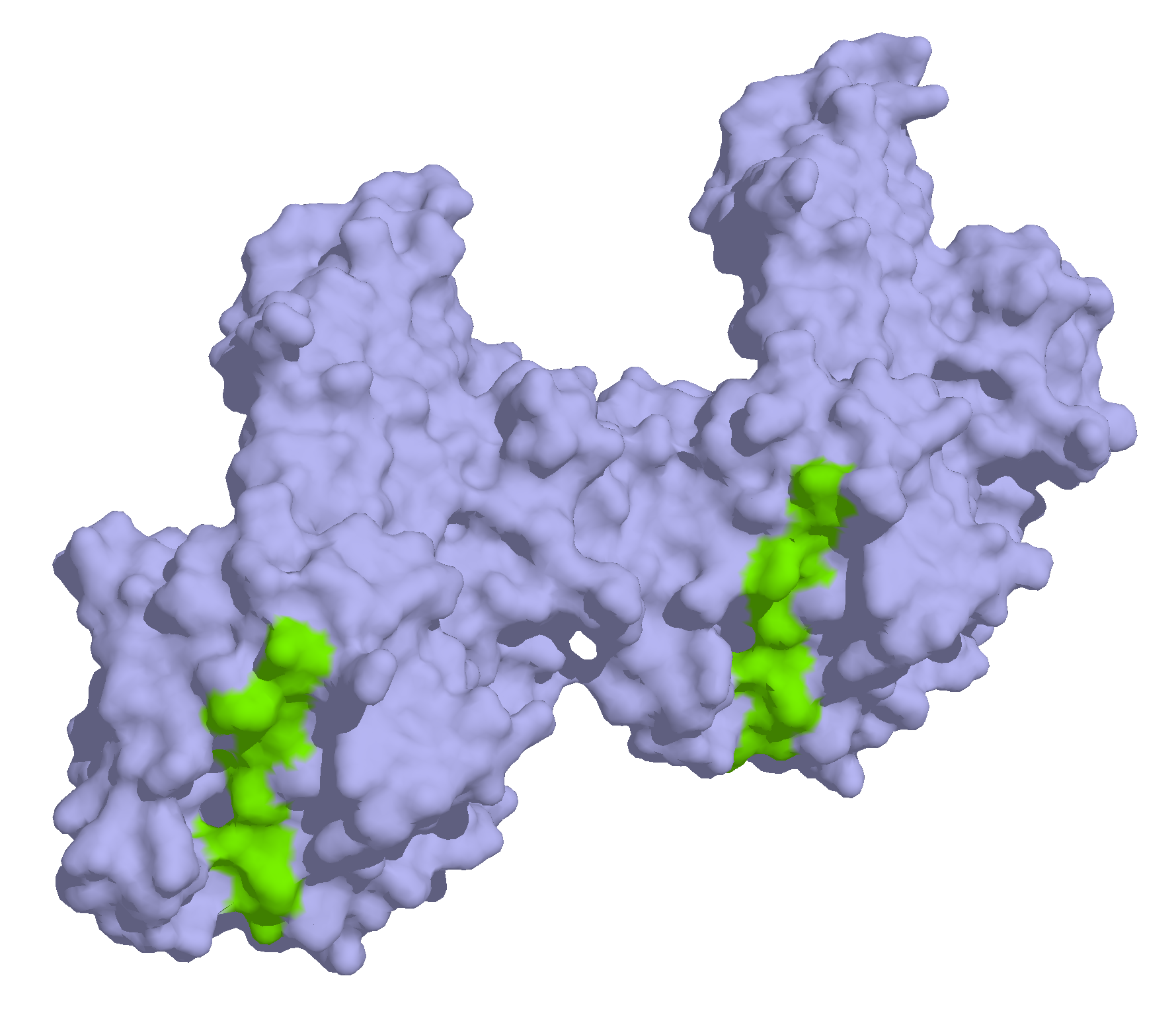 3d surface structure of HLA antibodies complexed to alpha-/beta-gliadin (GDA) from PDB 1S9V. Ref.: Kim, C.-Y., Quarsten, H., Bergseng, E., Khosla, C., Sollid, L.M. (2004) Structural basis for HLA-DQ2-mediated presentation of gluten epitopes in celiac disease Proc.Natl.Acad.Sci.USA 101: 4175-4179 PMID 15020763 DOI 10.2210/pdb1s9v